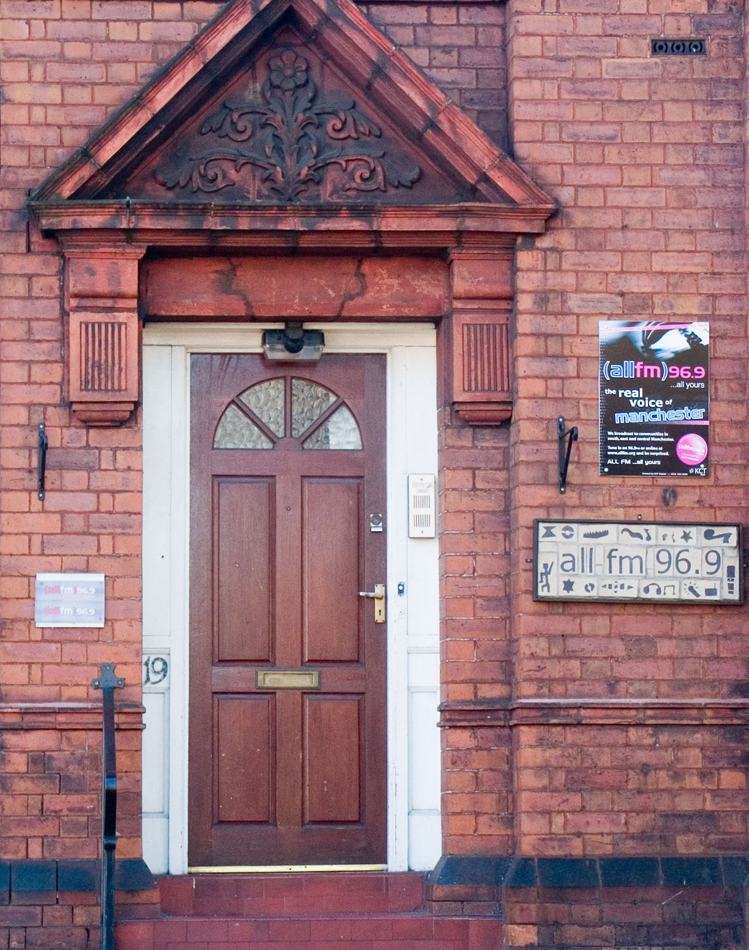 All FM Home of Levenshulme's own FM Radio station. Levenshulme , Manchester, England